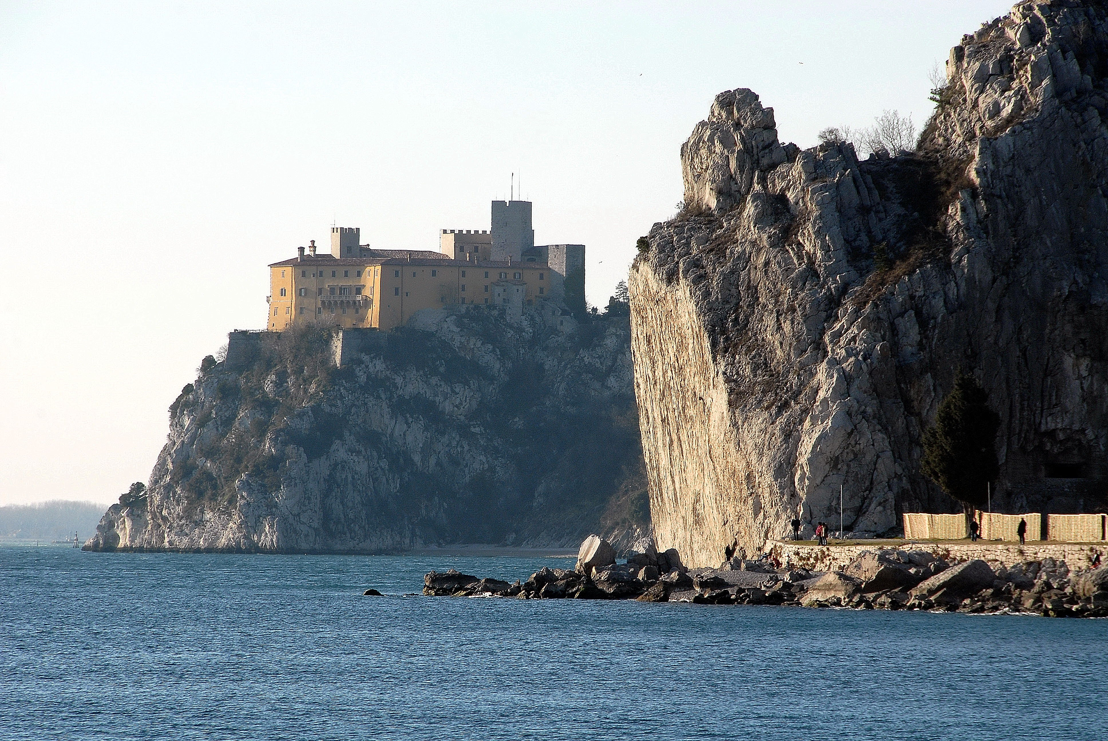 Duino castle, municipality Duino, Friuli-Venezia Giulia, Italy / EU